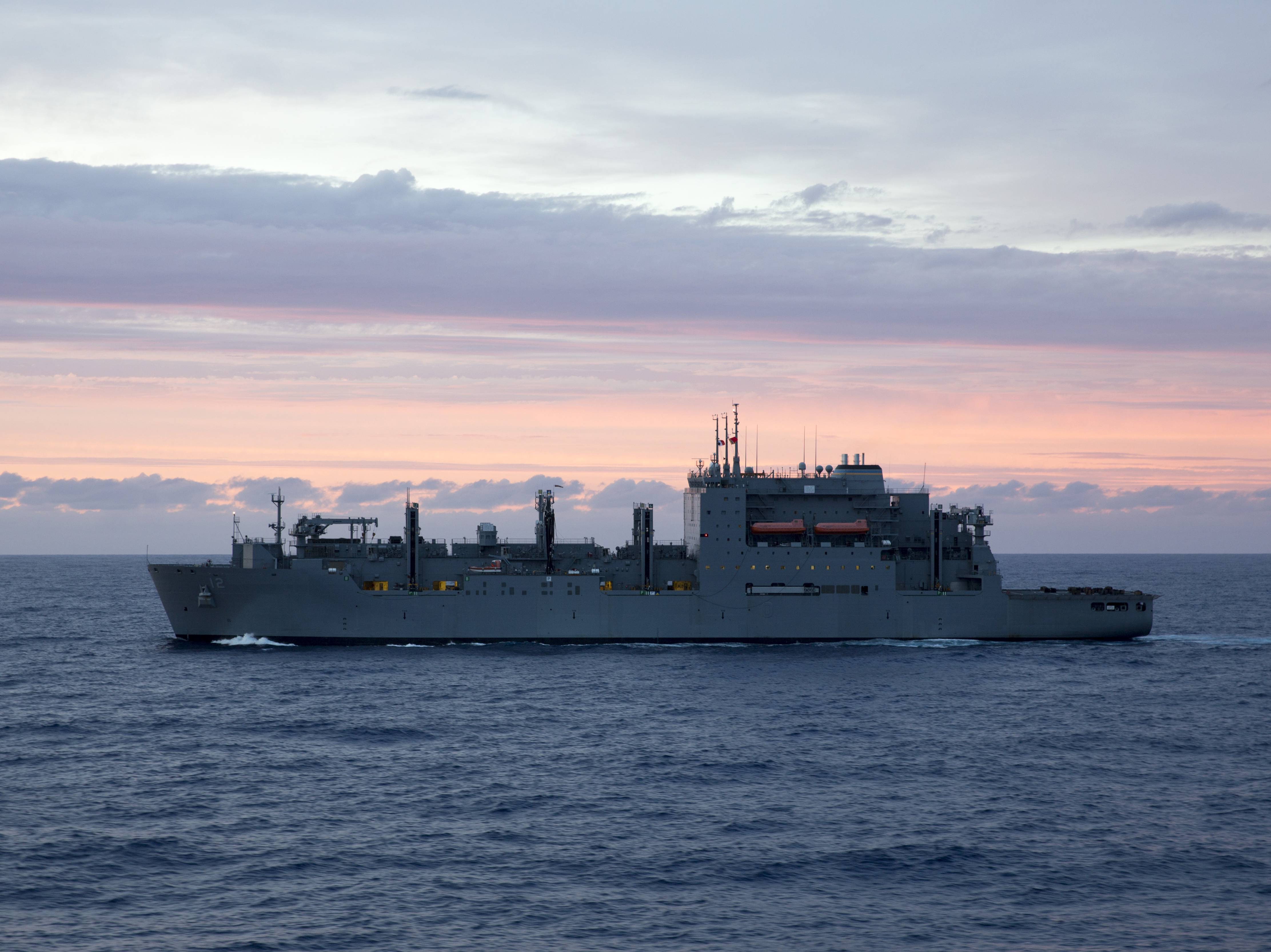 The U.S. Military Sealift Command dry cargo and ammunition ship USNS William McLean (T-AKE-12) underway in the Atlantic Ocean.